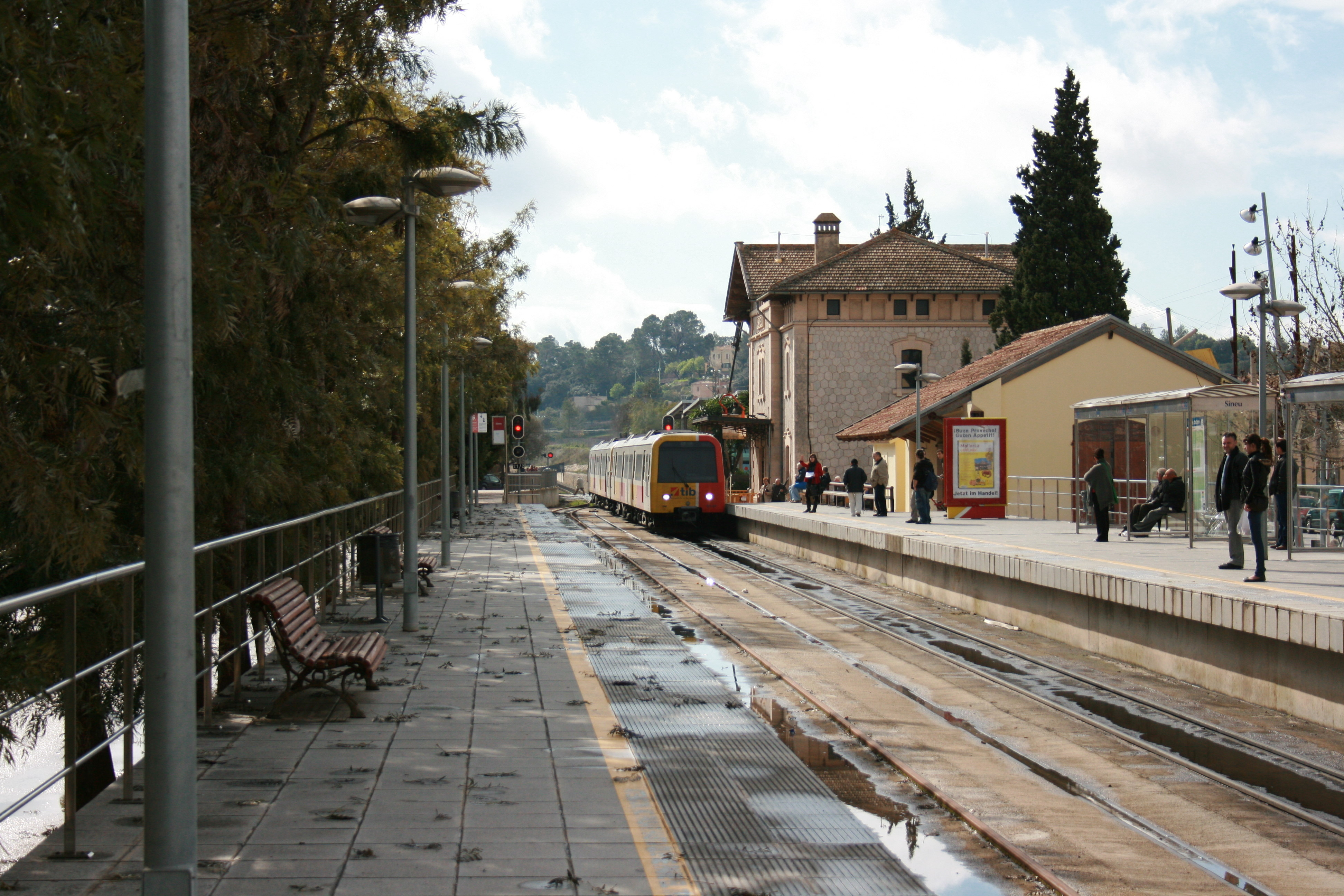 Train station of Sineu, Mallorca